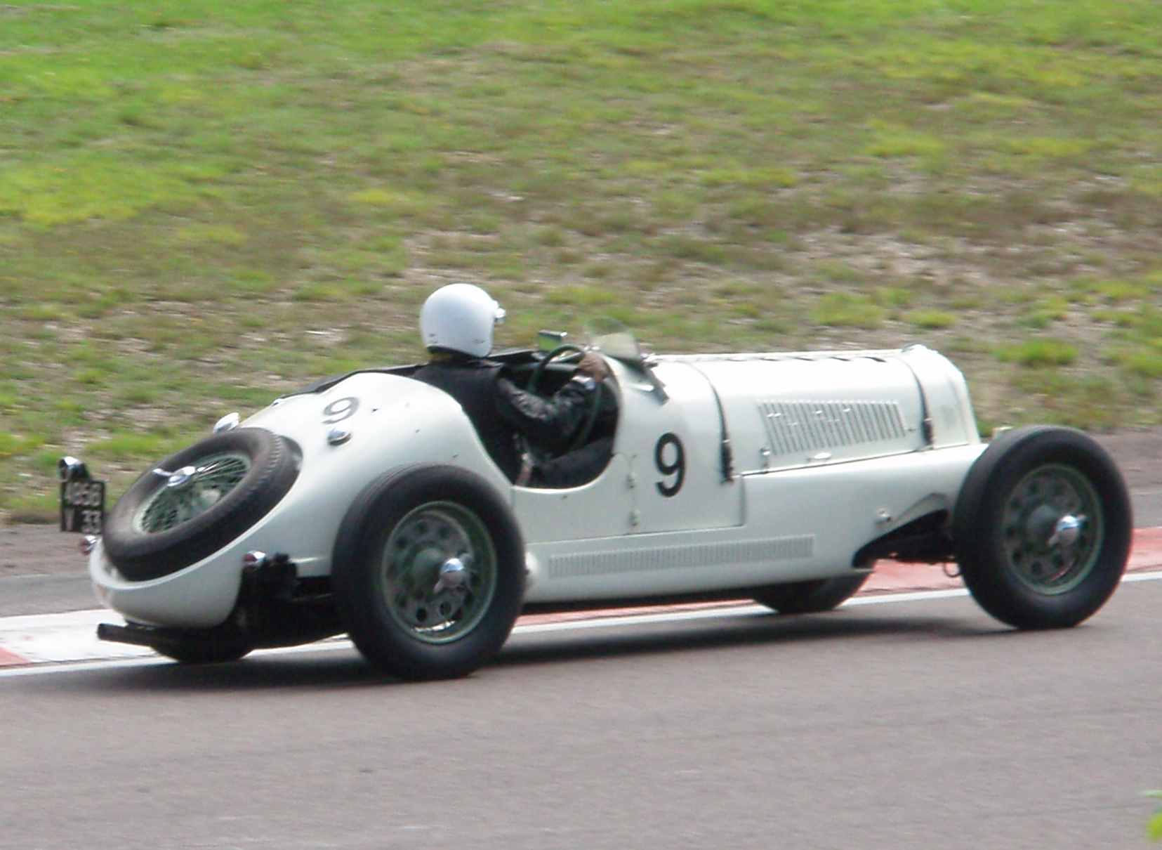 A 1936 Delahaye 135 Grand Prix race car in the 2007 "Grand Prix de l'Âge d'Or" in Dijon-Prenois.